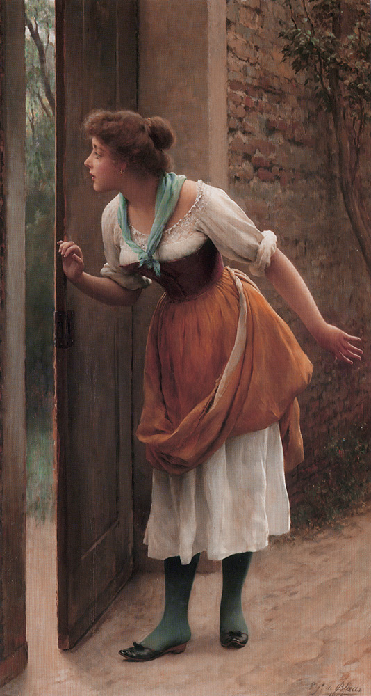 The Eavesdropper, Oil on panel, 80 x 47 cm